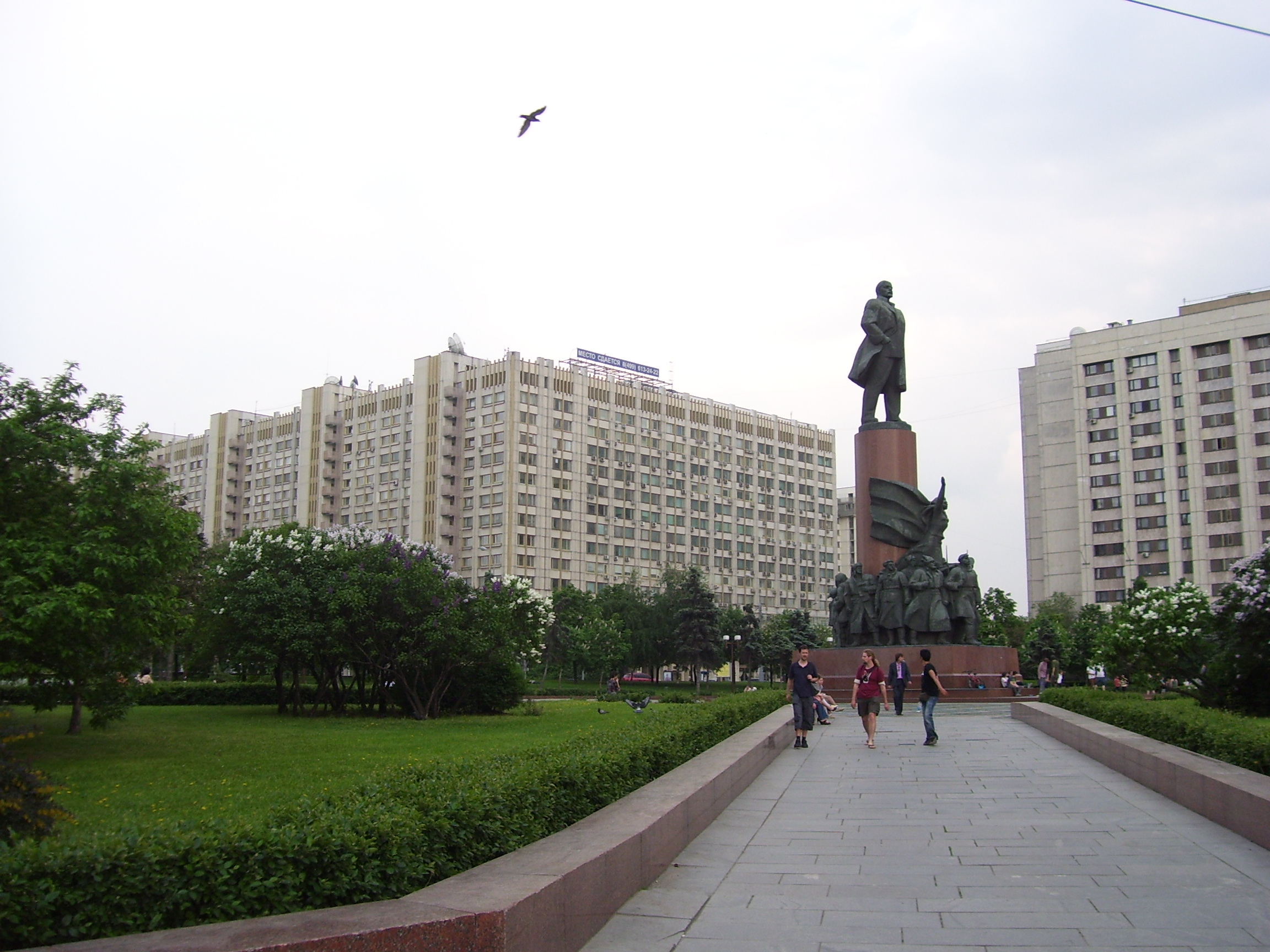 Koroviy val 7, Moscow: Embassy of Burkina Faso, Embassy of Chad, Embassy of Gambia, Embassy of Guatemala, Embassy of Guinea, Embassy of Qatar, Embassy of Republic of the Congo, Embassy of Malta, Embassy of Paraguay, Embassy of Senegal, Embassy of Eritrea